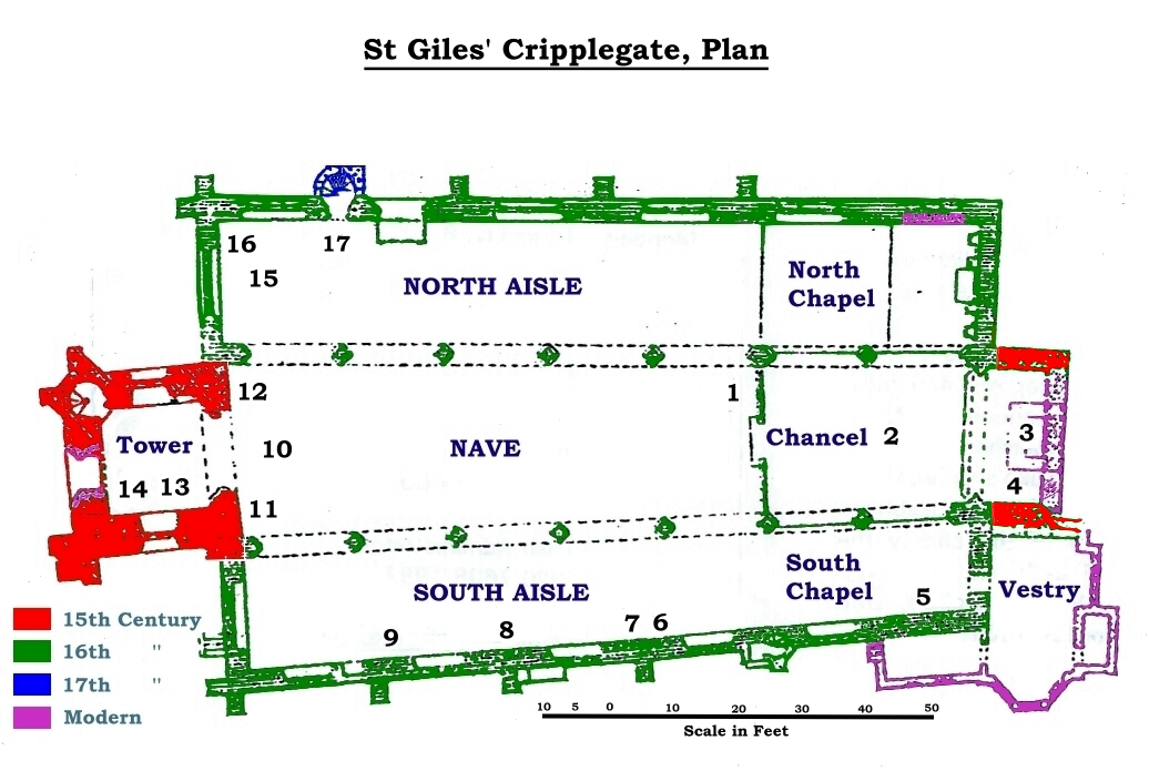 Floor plan of St Giles' Cripplegate